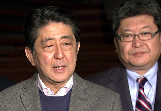 Shinzō Abe, Prime Minister, attended the press conference with Kōichi Hagiuda and Kōtarō Nogami, Deputy Chief Cabinet Secretaries, at the Prime Minister's Official Residence in Chiyoda Ward, Tōkyō Metropolis on January 28, 2017.